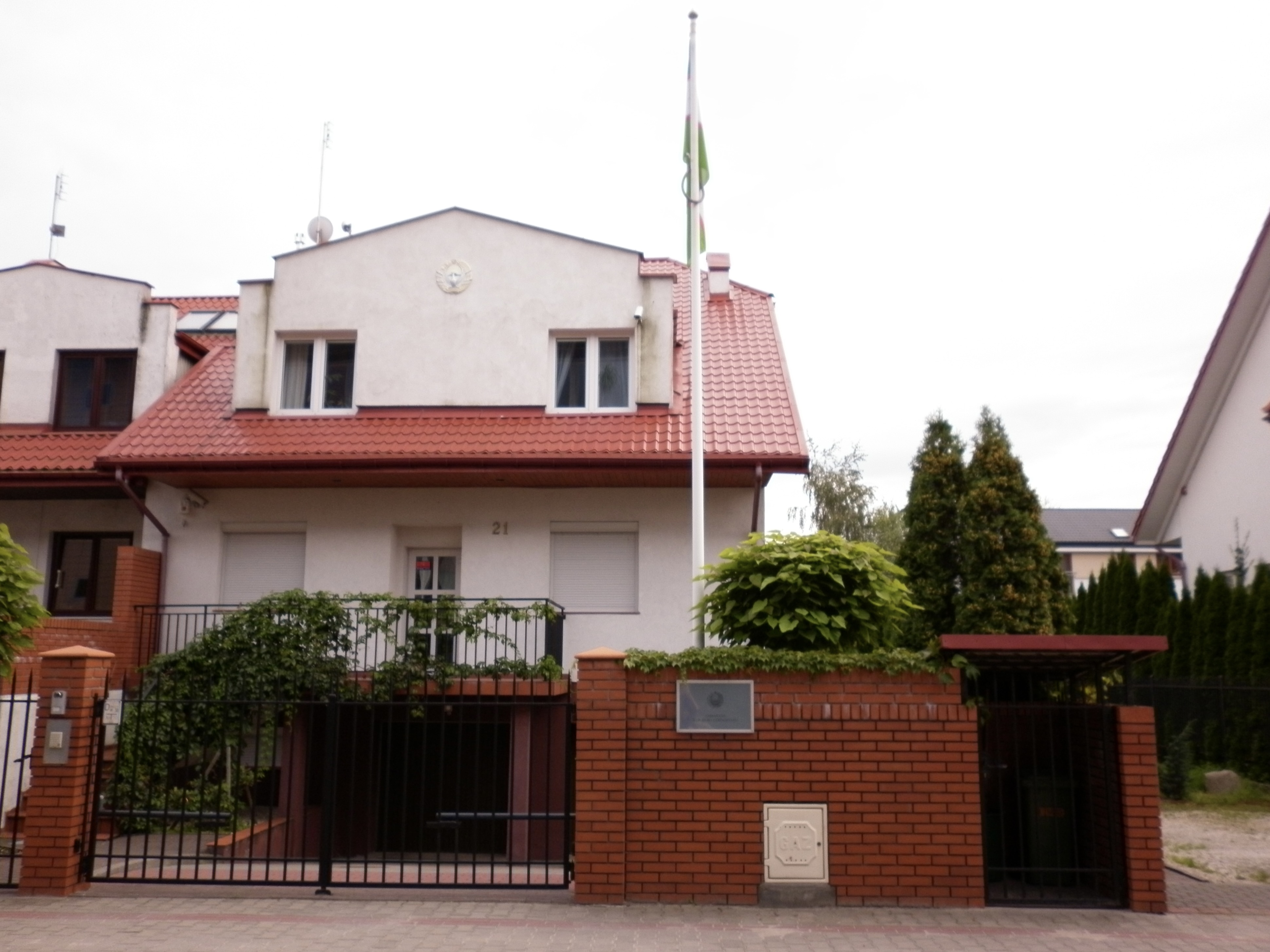 Embassy of Uzbekistan in Poland